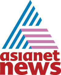 Asianet News Logo